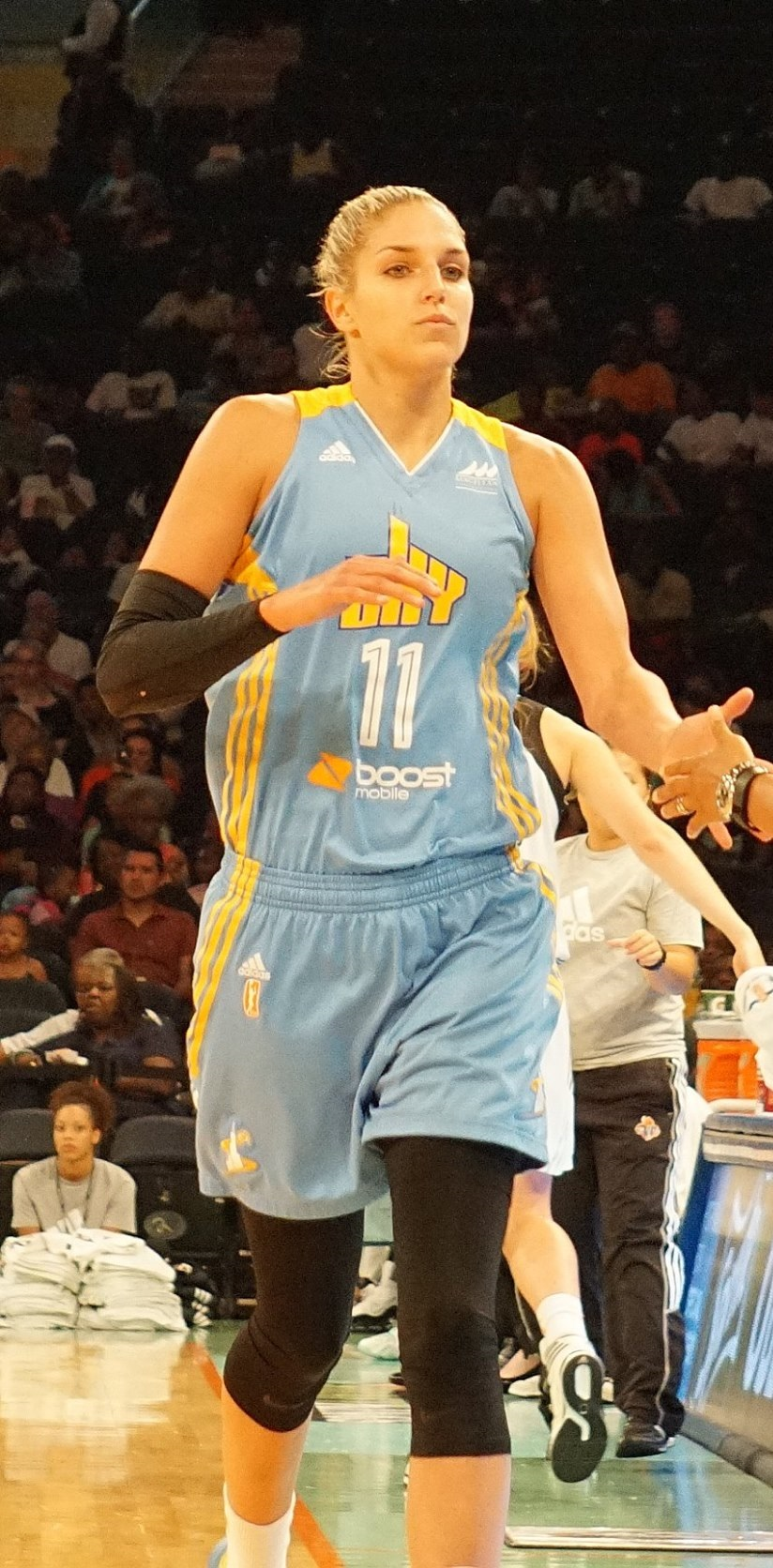 Elena Delle Donne returns to the bench at Madison Square Garden during the Chicago Sky's 82-60 win over the NY Liberty. Delle Donne finished with 19 points, 7 rebounds, 3 assists, 2 steals and 2 blocks.